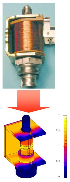 Actuator magnetic field simulation with Flux3D